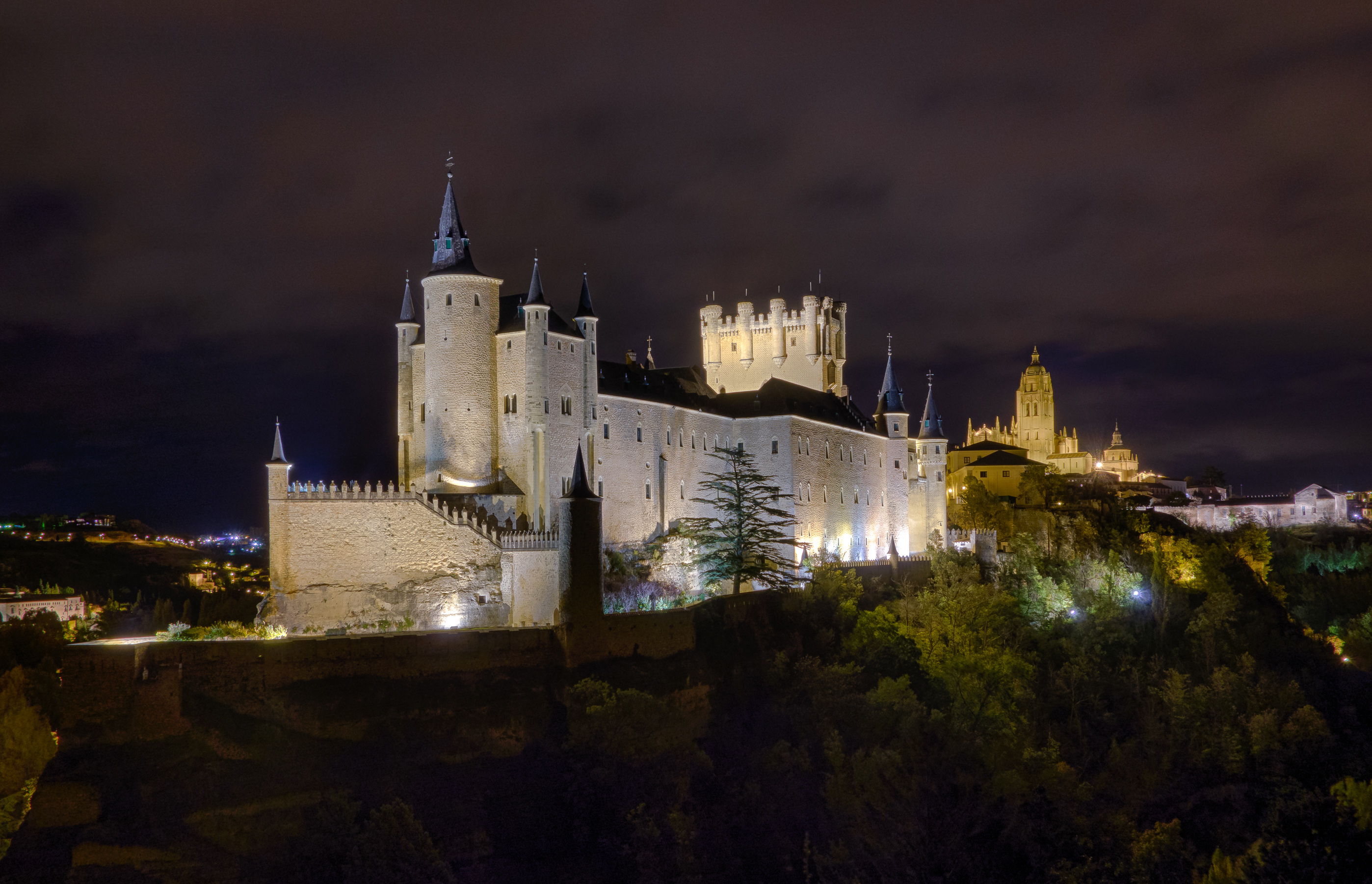 Alcazar at night / Segovia, Spain